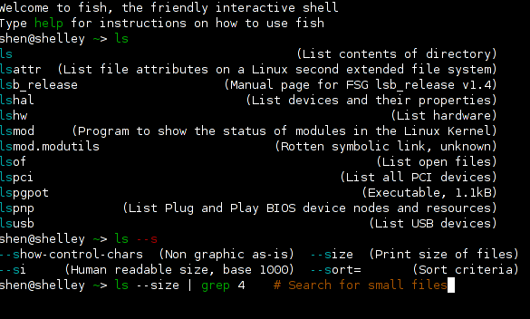 A screenshot of friendly interactive shell running on Ubuntu Linux.